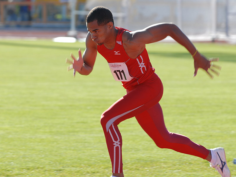 Allen Simms at Stavanger Games 2007.